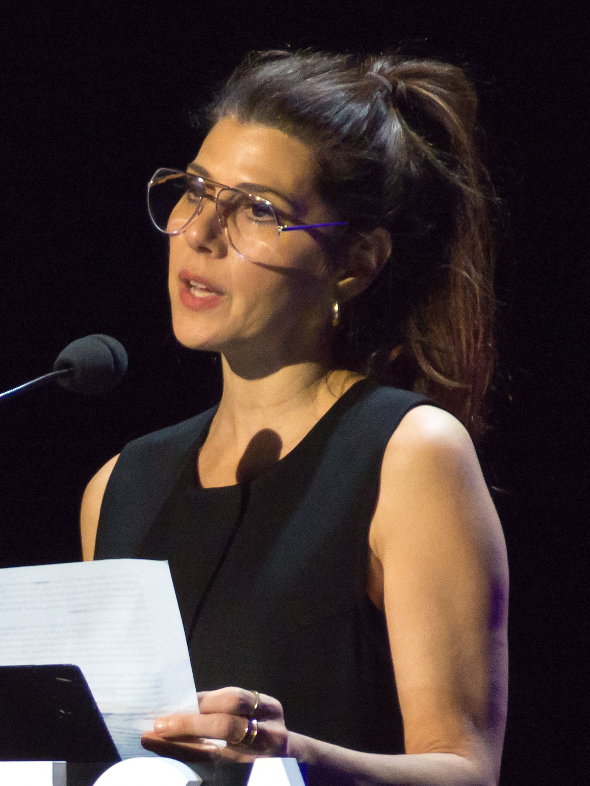 Time's Up event at the 2018 Tribeca Film Festival (Tribeca Talks: Time's Up). A series of talks/performances about Time's Up/sexual harassment. Marisa Tomei introducing the Time's Up Legal Defense Fund.